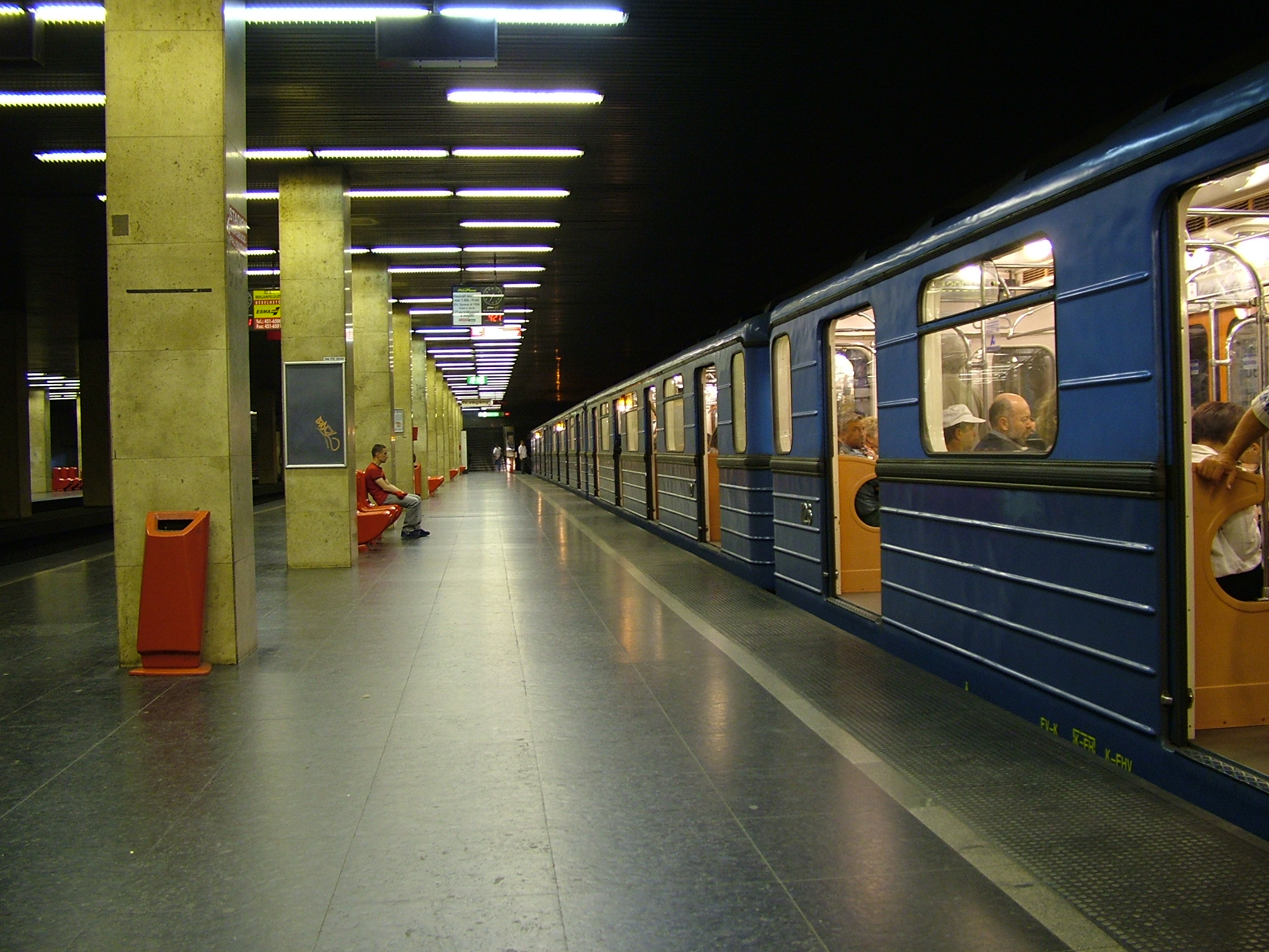 Stadions (now Ferenc Puskás stadion) station on the Budapest metro line 2 See other pictures: metros.hu